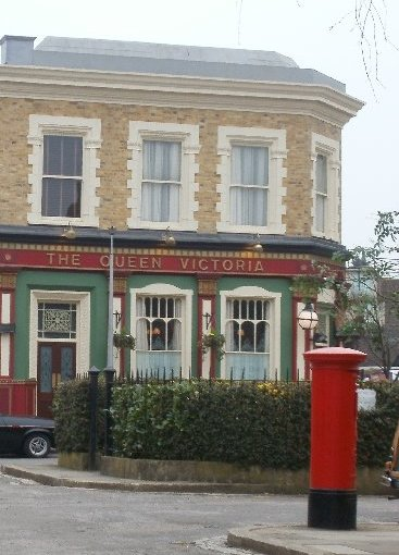 The Queen Vic after the fire